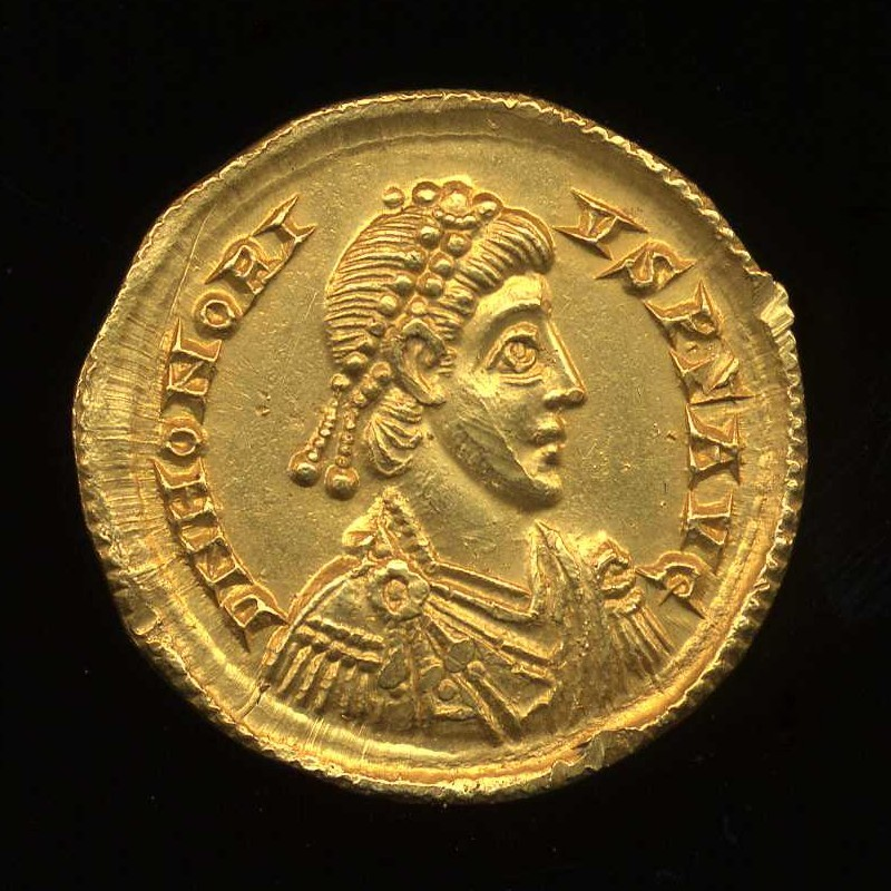 Hoxne Hoard Check out our Roman coin guide Produced by Natalia Bauer for the Portable Antiquities Scheme.